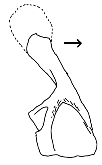 ANSP 20053, the holotype left shoulder blade (cleithrum plus scapulocoracoid) of Hynerpeton bassetti, shown in medial (inner) view. Dotted lines show the reconstructed extent of the bone. Arrow indicates anterior direction (towards the head). Note the large subscapular fossa and the somewhat smaller (but still well-defined) infraglenoid fossa. Reference source: Daeschler et al. (1994). "A Devonian Tetrapod from North America"